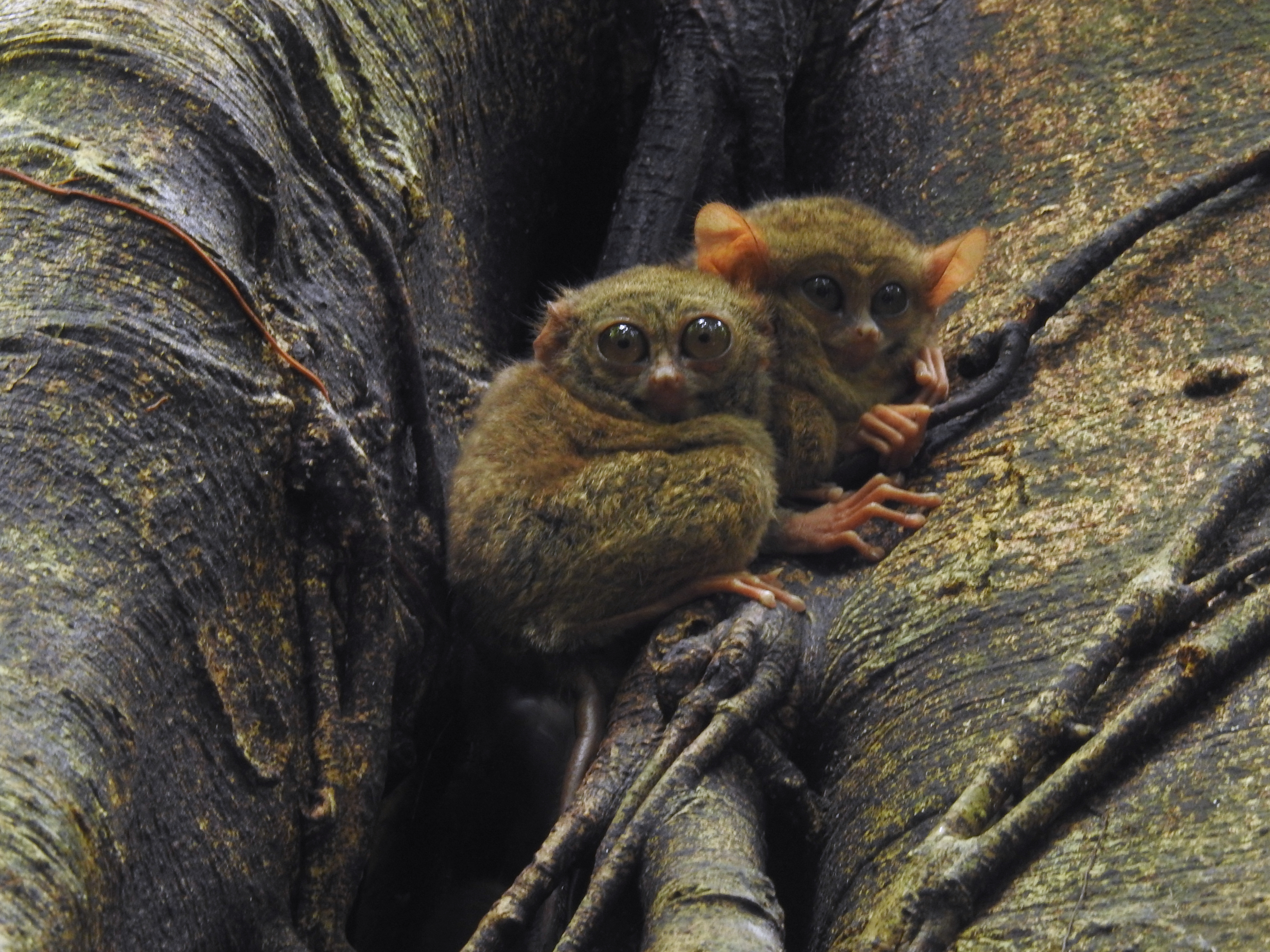 Gursky's spectral tarsier at a roosting stranger fig tree in Tangkoko Nature Reserve, Sulawesi